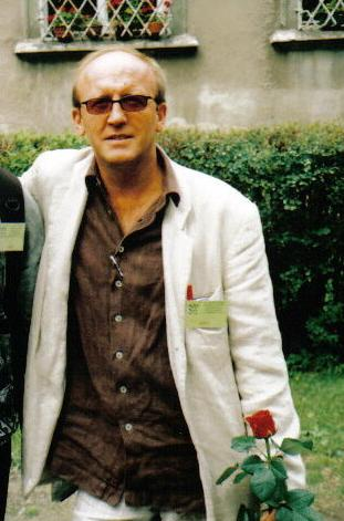 Actor Artur Barciś.